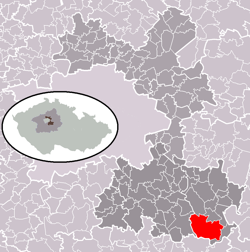 Location of Stříbrná Skalice municipality within Prague-East District and administrative area of Říčany as a Municipality with Extended Competence.